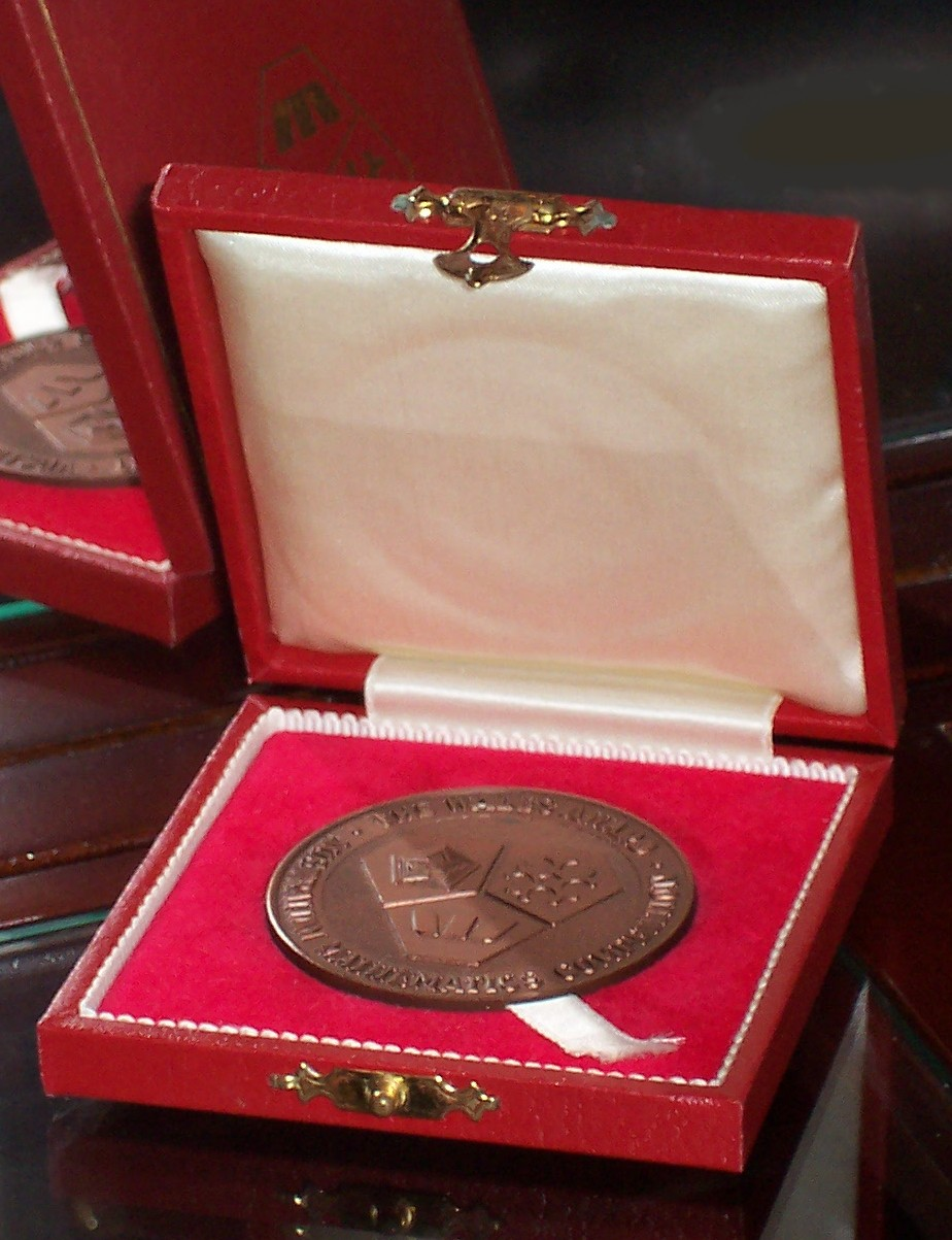 Wales award - one of 12 medals awarded for the inaugural Australian Mathematics Competition in 1978